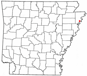 This image is an adaption of the Wikipedia AR County maps. The original map grants the permission to copy, distribute and/or modify the document under the terms of the GNU Free Documentation License, Version 1.2 or any later version published by the Free Software Foundation. I did not even modify the map, just renamed it, the locations of Wilson AR and Reverie, TN are just a mile apart, so that they are both covered by the red dot on the map, which covers an area of 5-6 miles diameter approximately, marking both locations very well. Location of the original